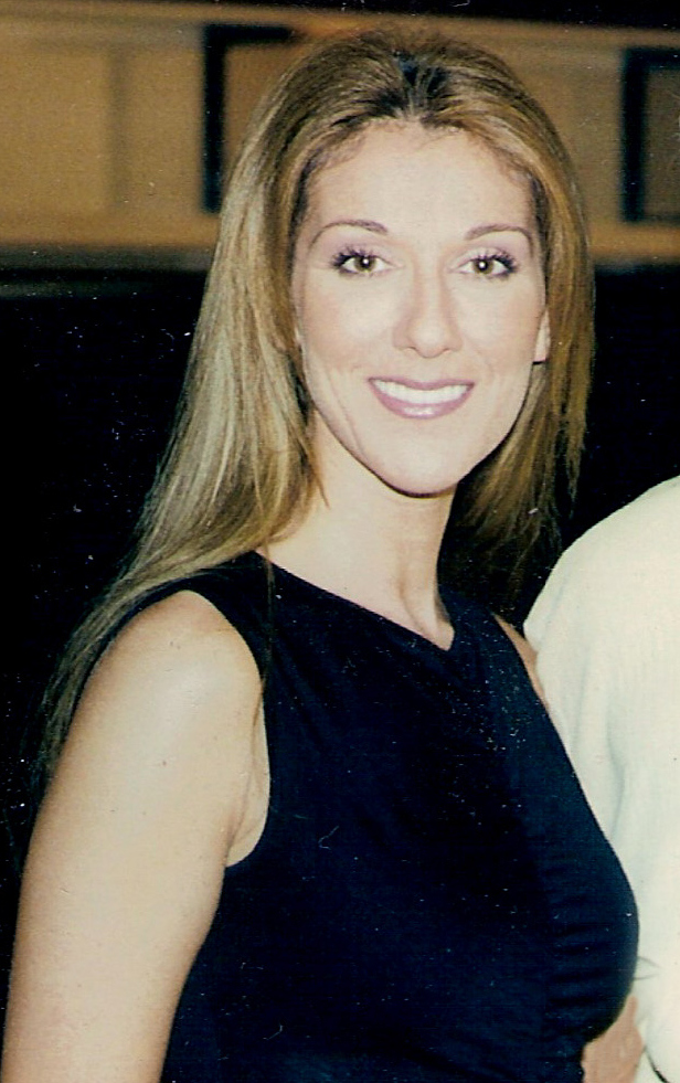 Celine Dion by Linda Bisset.